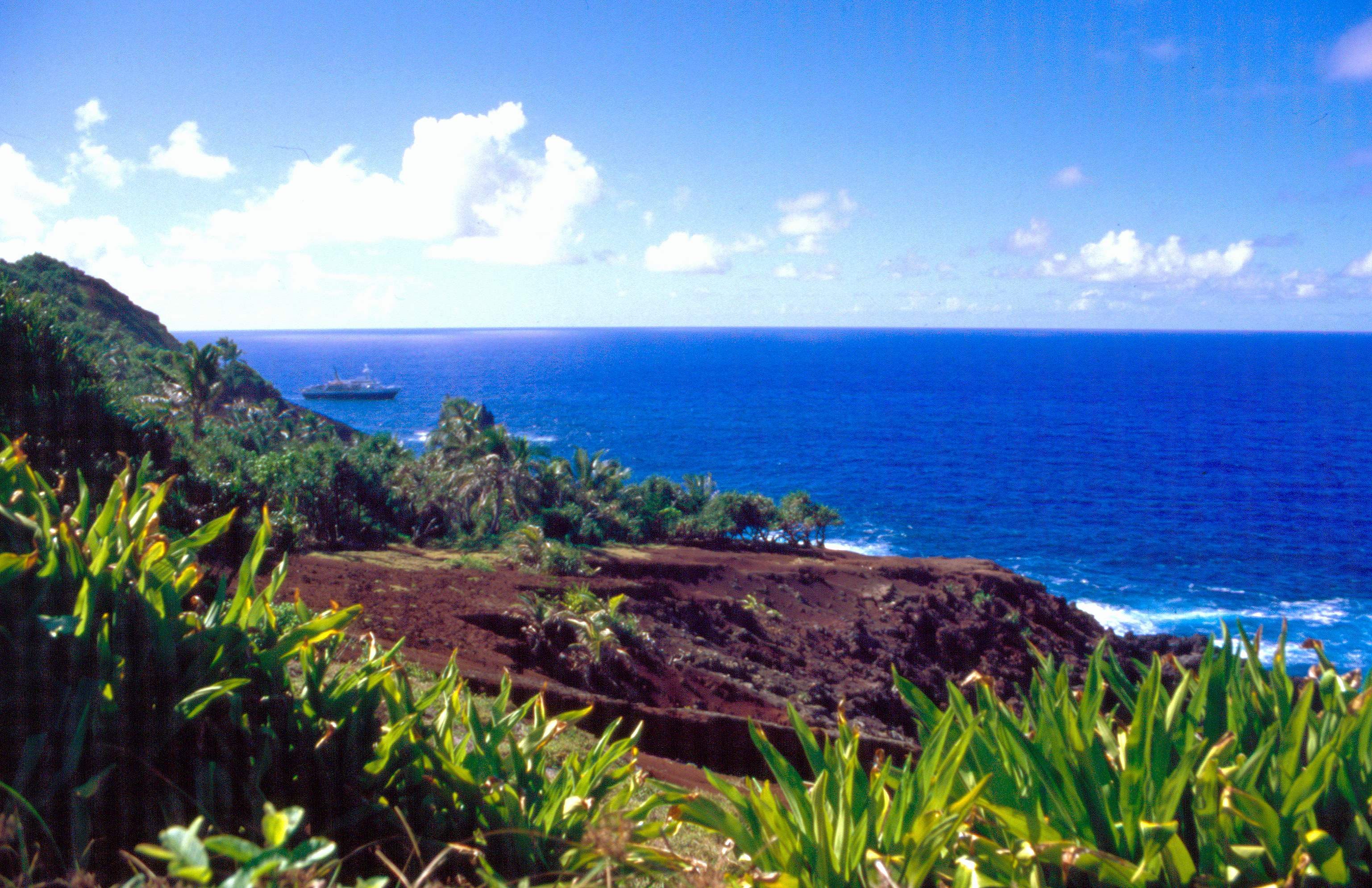 St. Pauls Point, Pitcairn Island